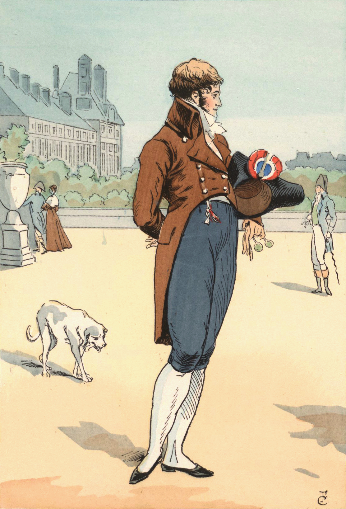 According to Baudelaire, a dandy was, "no profession other than elegance...no other status but that of cultivating the idea of beauty in their own persons....The dandy must aspire to be sublime without interruption; he must live and sleep before a mirror." Dandies tried to imitate the aristocracy in manner and appearance. The man depicted in this plate is wearing the short breeches typical of the aristocracy that had already gone out of style in favor of the 'more-democratic' ankle-length pants. His outfit and manners are a throwback to a pre-Revolutionary era.